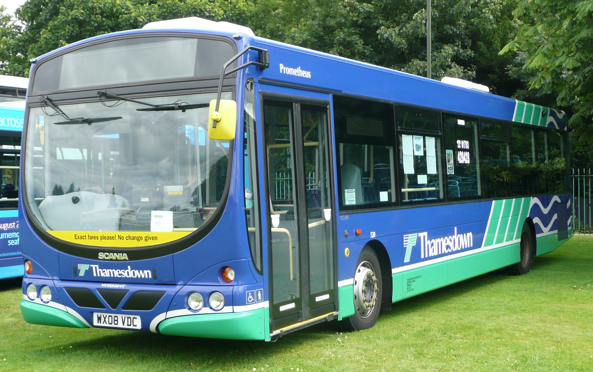 Thamesdown Transport 520 Prometheus (WX08 VDC), a Scania K230UB/Wright Solar, at the 2008 Alton bus rally at Anstey Park.